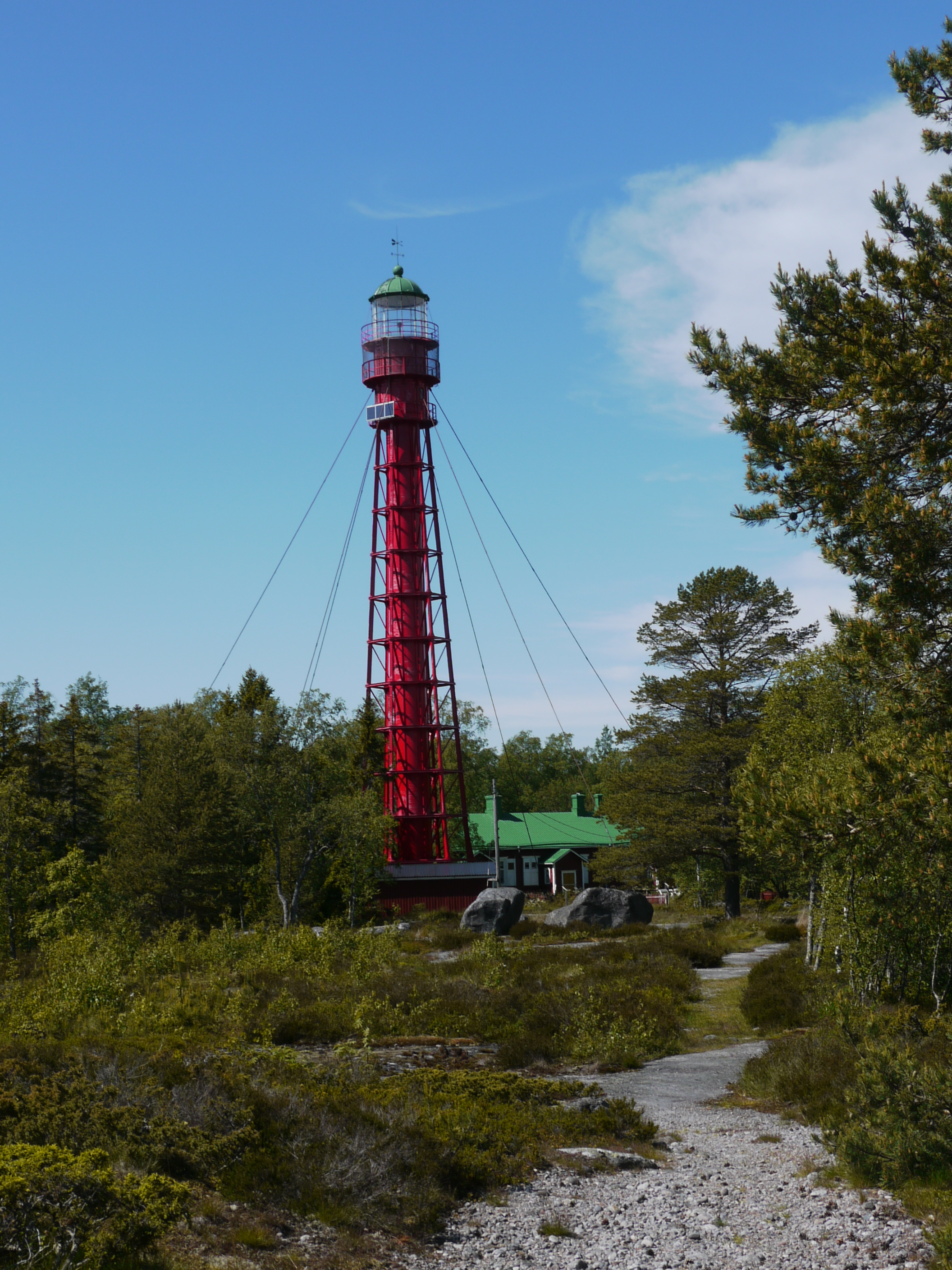 Lighthouse on Valsörarna, Kvarken, Finland. Designed in 1885 by Henry Lepaute of the French studio of Gustave Eiffel.